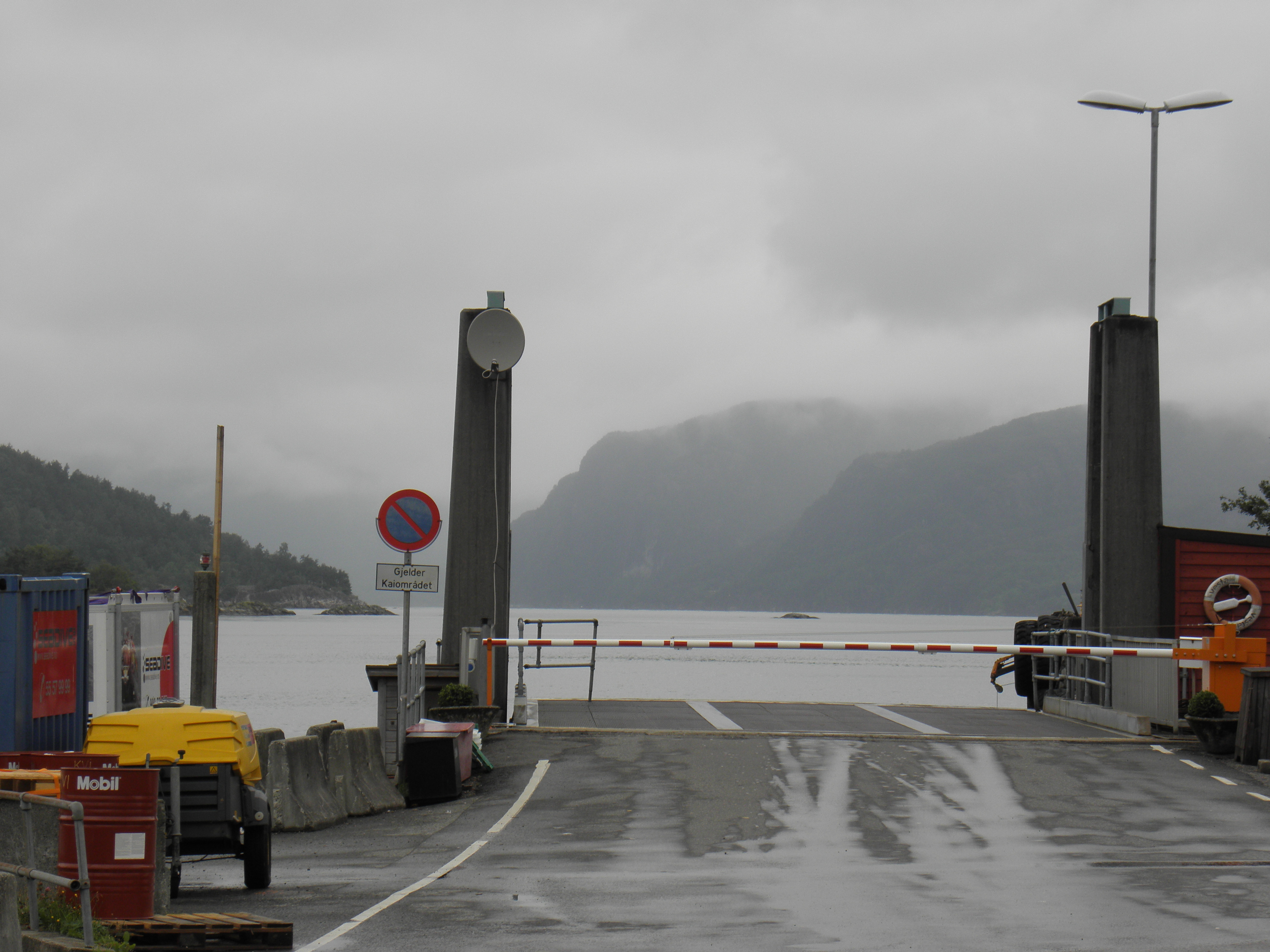 The ferry quay at Gjermundshamn in the municipality of Kvinnherad, Hordaland, Norway. In the background lies the island of Varaldsøy.